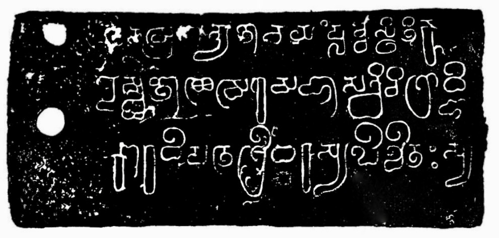 A Chera era Tamil Grantha script inscription. The font is marked by long and stylish loops. This inscription was made in early 9th-century. This is a photo of a 2-D artwork created between 800 and 810 CE. Therefore Wikimedia Commons PD-Art licensing guidelines apply. Any rights I have as a photographer is herewith donated to wikimedia commons under CC 4.0 license.